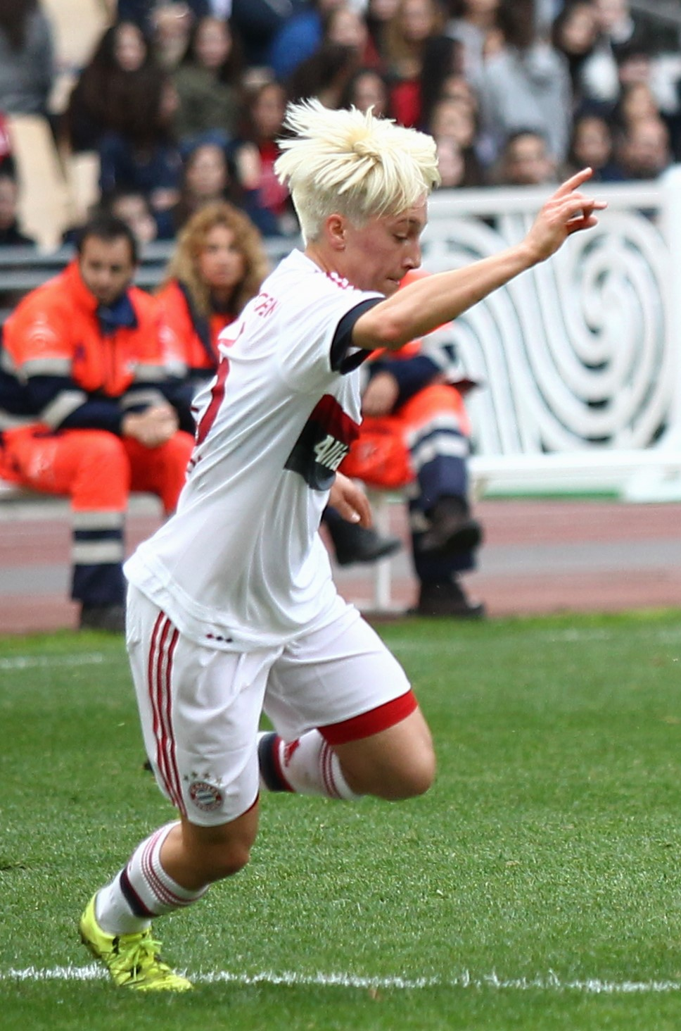 Danielle Carter of Arsenal Ladies on the ball during the game against Bayern Munich.